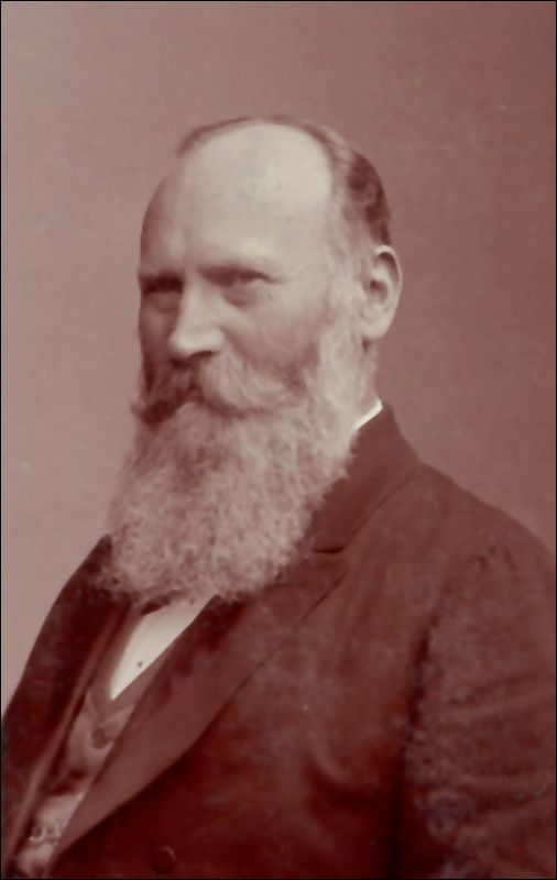 Heinrich Wilhelm Waldeyer (1836–1921), German anatomist and pathologist